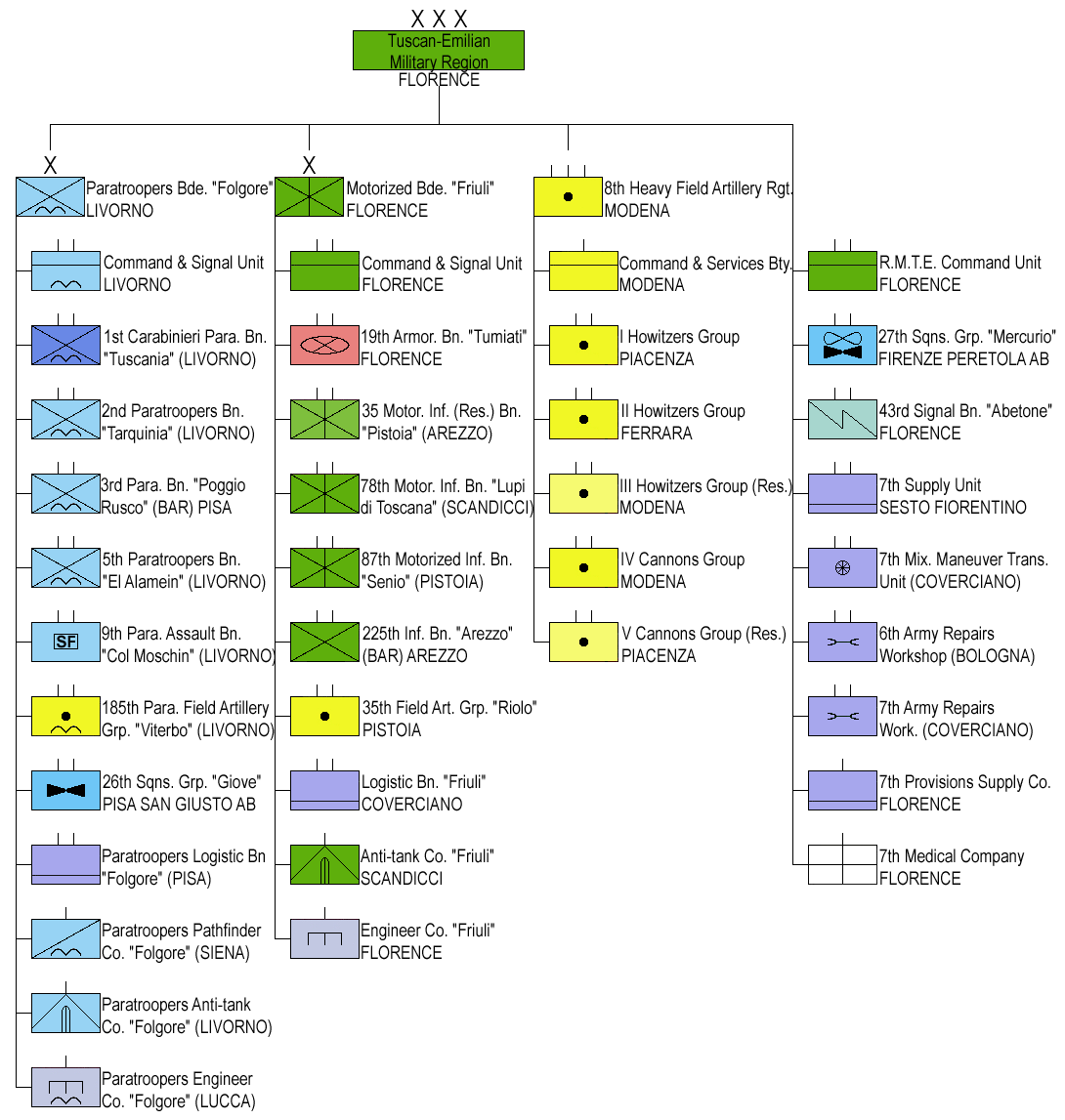 Structure of the Italian Army's Tuscan-Emilian Military Region in 1977